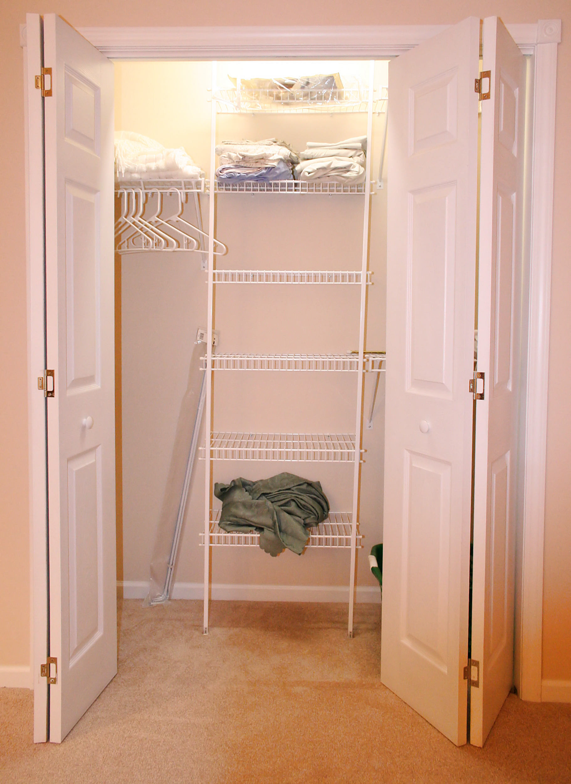 Wall closet in a residential house. Photo shot by Derek Jensen (Tysto), 2006-January-04